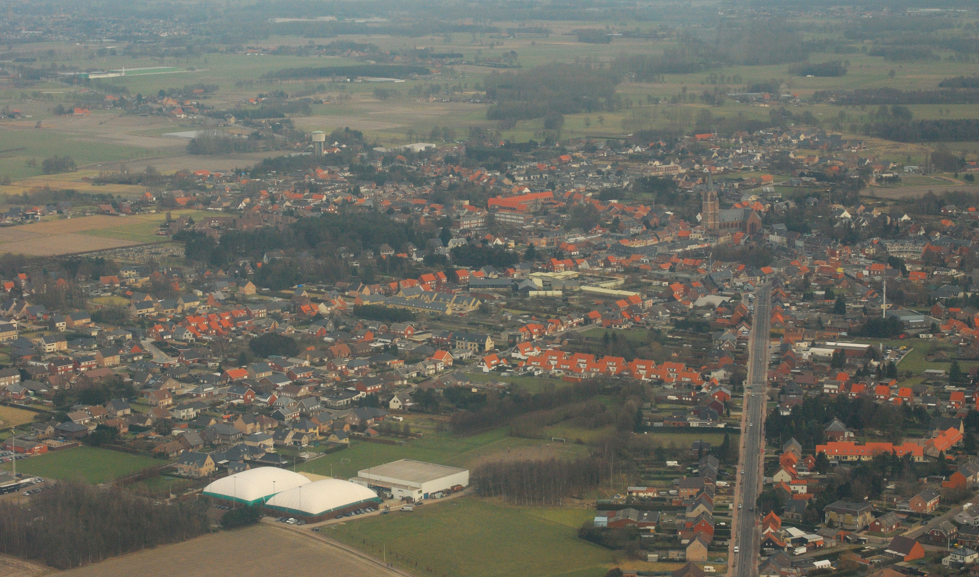 Aerial view from the South towards central Rijkevorsel, Belgium. Nikon D60 f=55mm f/13 at 1/250s ISO 800. Post-process using Nikon ViewNX 1.0.3 and Adobe Photoshop 4.0.